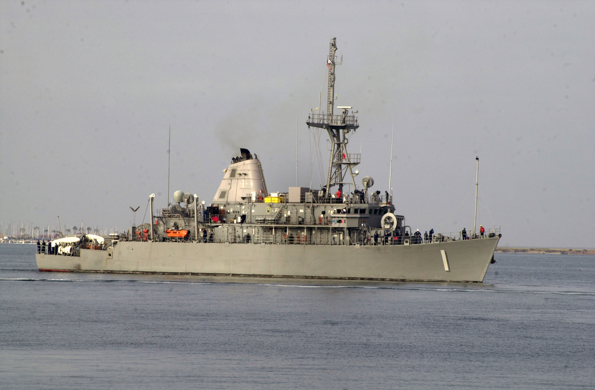 Naval Base San Diego, Calif. (Apr. 16, 2004) - The mine counter measure ship USS Avenger (MCM 1) leaves Naval Base San Diego for a training deployment. Avenger, homeported in Texas, recently visited San Diego during a four-month training deployment. U.S. Navy photo by Photographer's Mate 3rd Class Johansen Laurel (RELEASED)